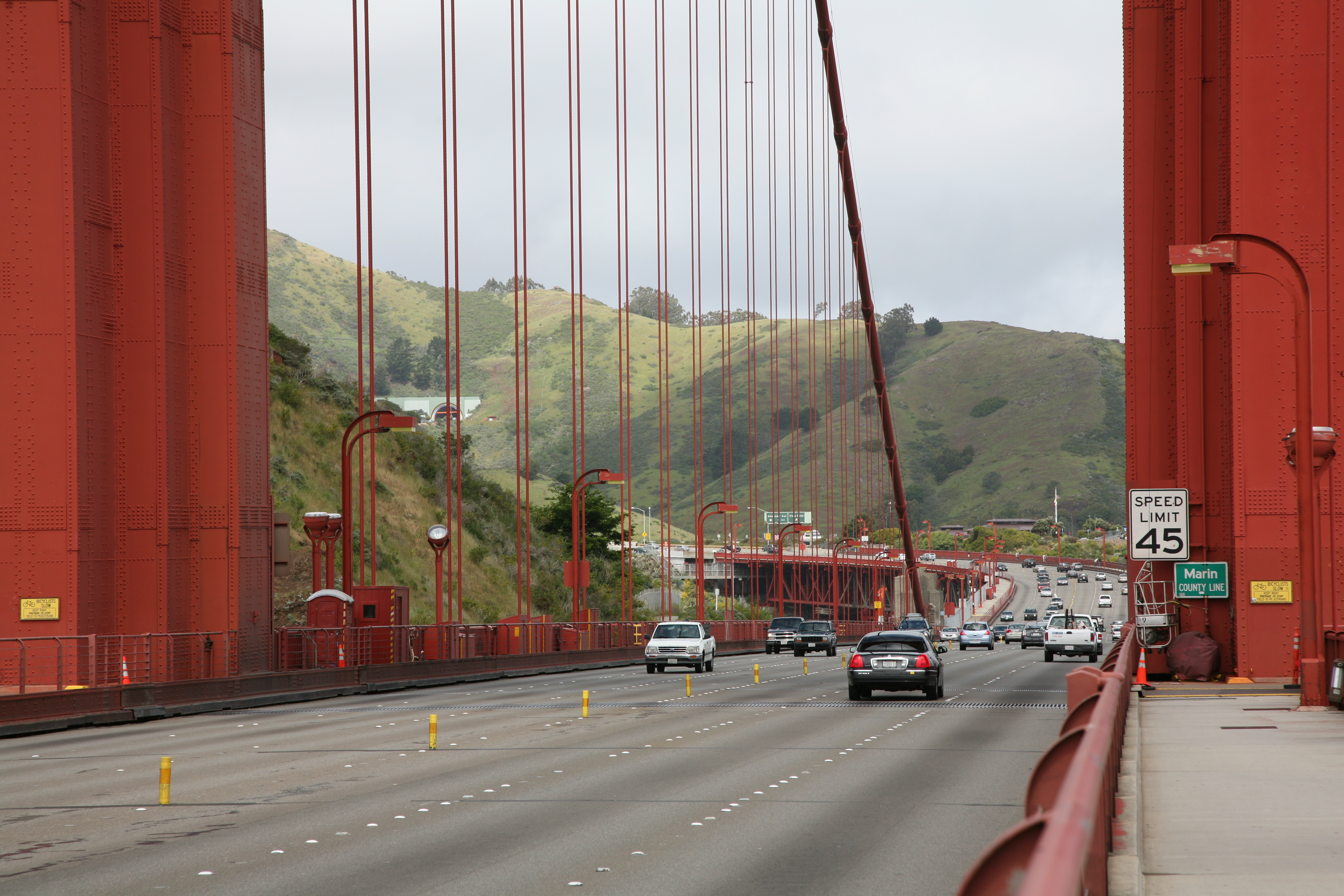 Marin County line on the Golden Gate Bridge